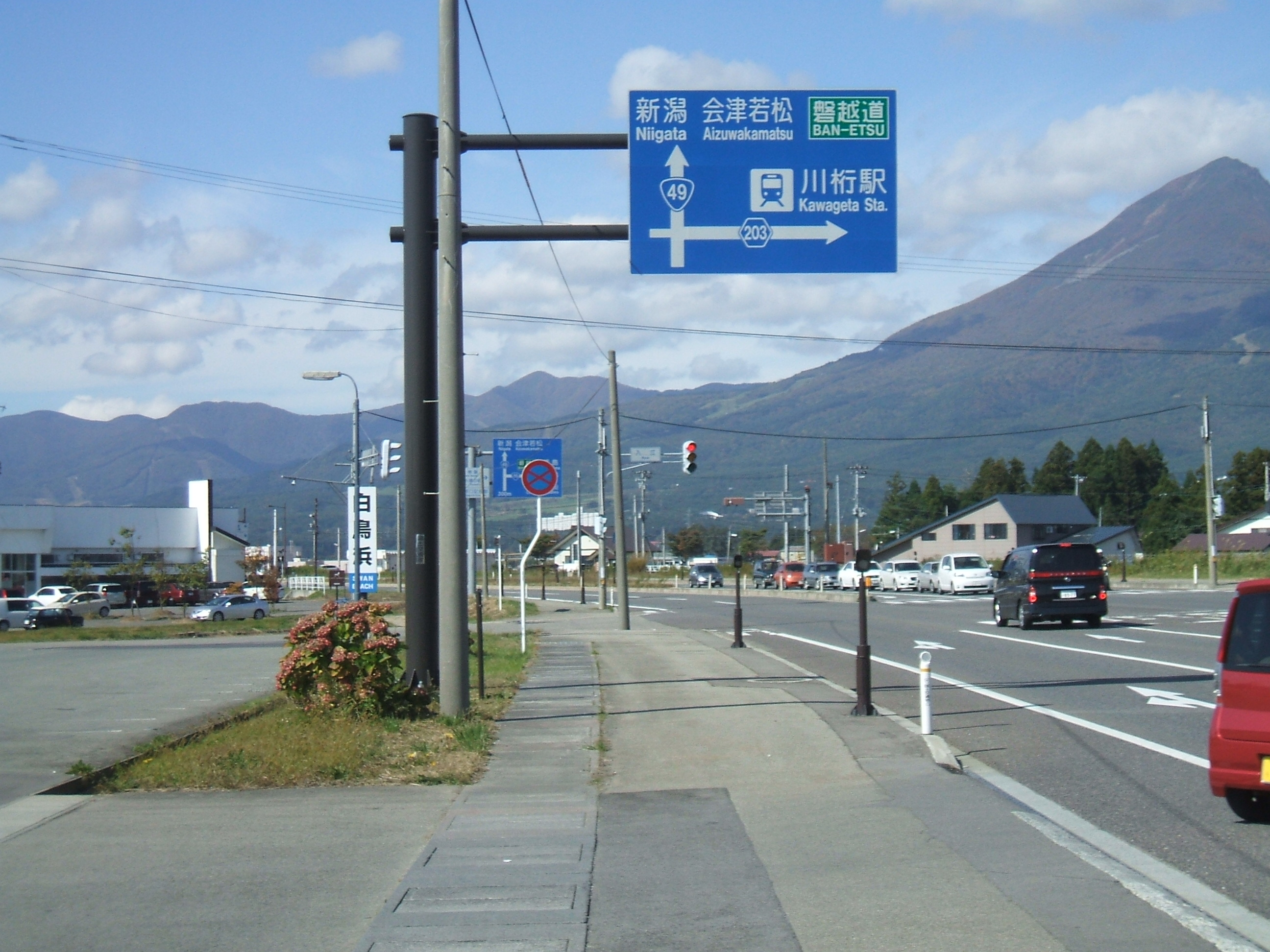 Landscape of Japanese national road "route 49" at Katada, Inawashiro, Fukushima. Inside flame, There're some signs and Mt "Bandai".